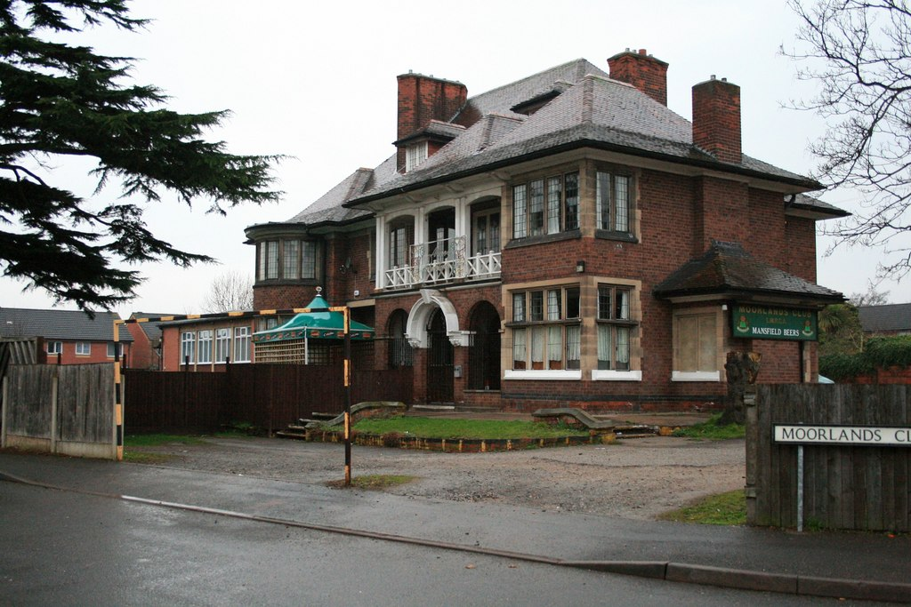 The Moorlands Club On the corner of Moorlands Close and Curzon Street. The building still sports a sign from Mansfield Brewery, which has not been in existence for some time now.